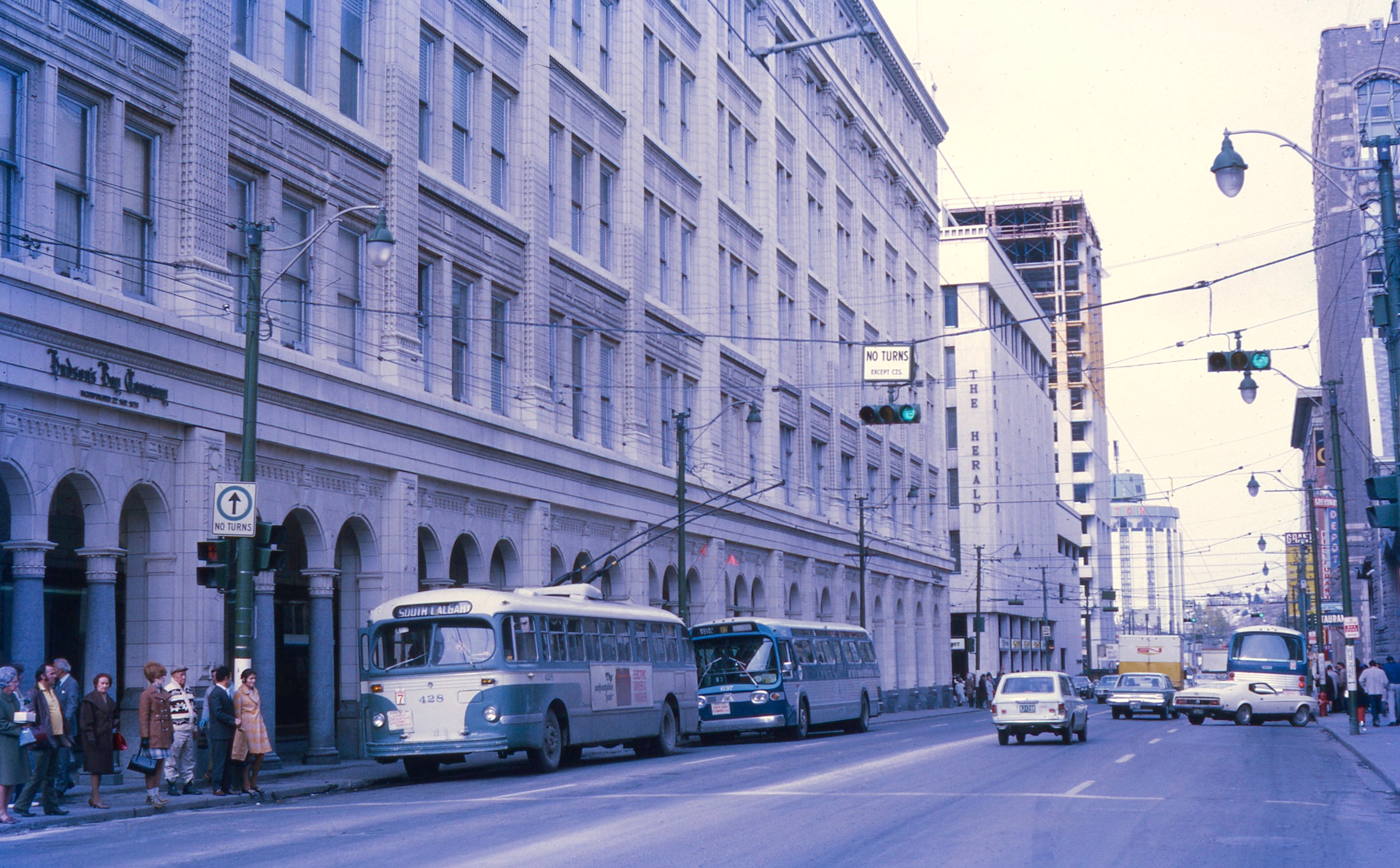 Calgary trolleybus No. 428 (a 1947 CCF-Brill T44), followed by a GM New Look diesel bus, next to the Hudson's Bay Company store. The view is looking north on First Street SW from Stephen Avenue (8th Avenue SW). Calgary's trolleybus system closed in 1975. (Photo taken on Kodachrome on 14 October 1971.)